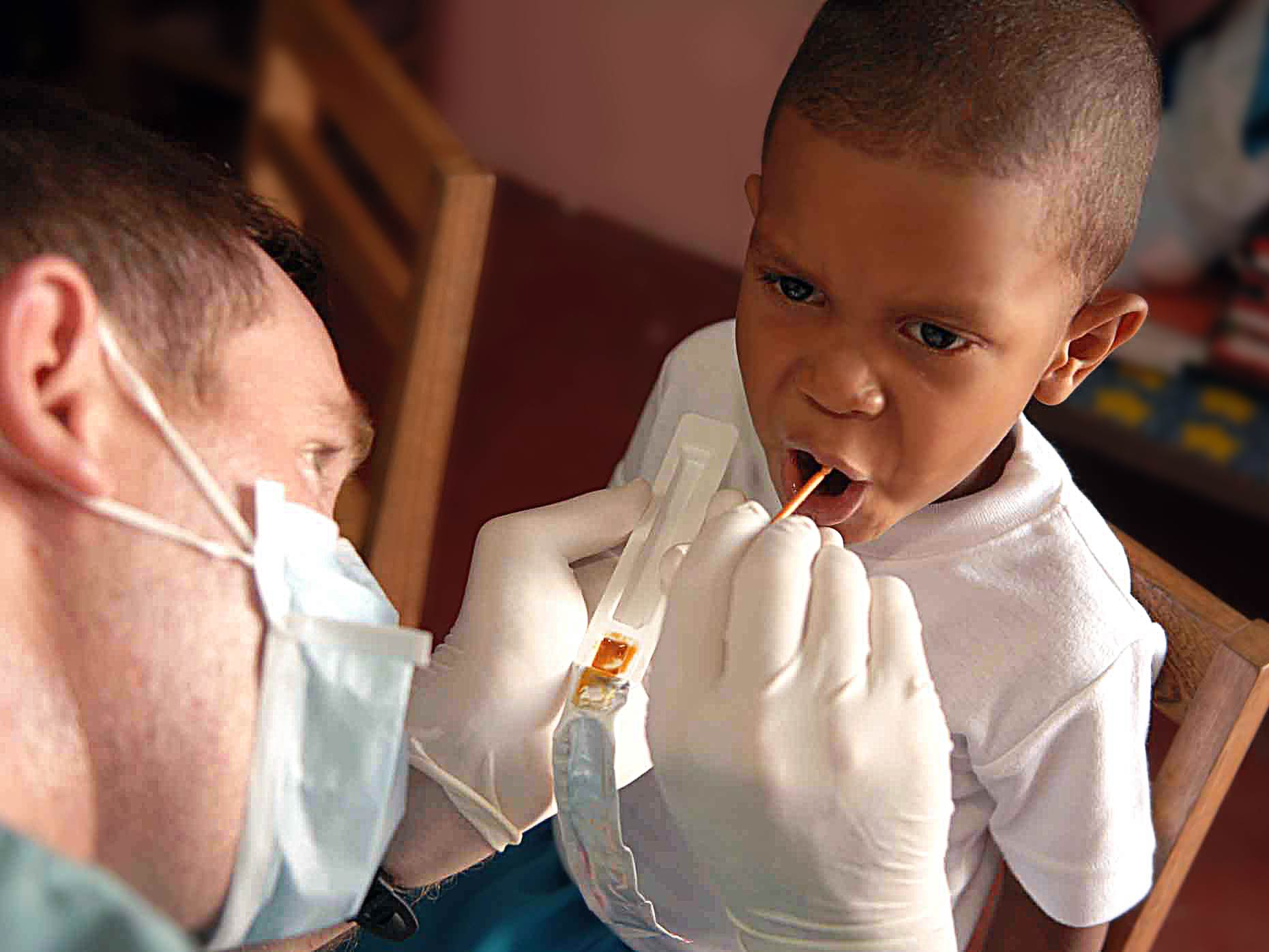 COLON, Panama (May 26, 2006) A service member embarked aboard the Military Sealift Command hospital ship USNS Comfort (T-AH 20) gives a Fluoride treatment to a patient during a Continuing Promise 2009 medical civil service project at Puerto Pilon Gym. Continuing Promise is a four-month humanitarian and civic assistance mission providing medical and other services in seven countries through Latin America and the Caribbean.(U.S. Air Force photo by Senior Airman Jessica Snow/Released)